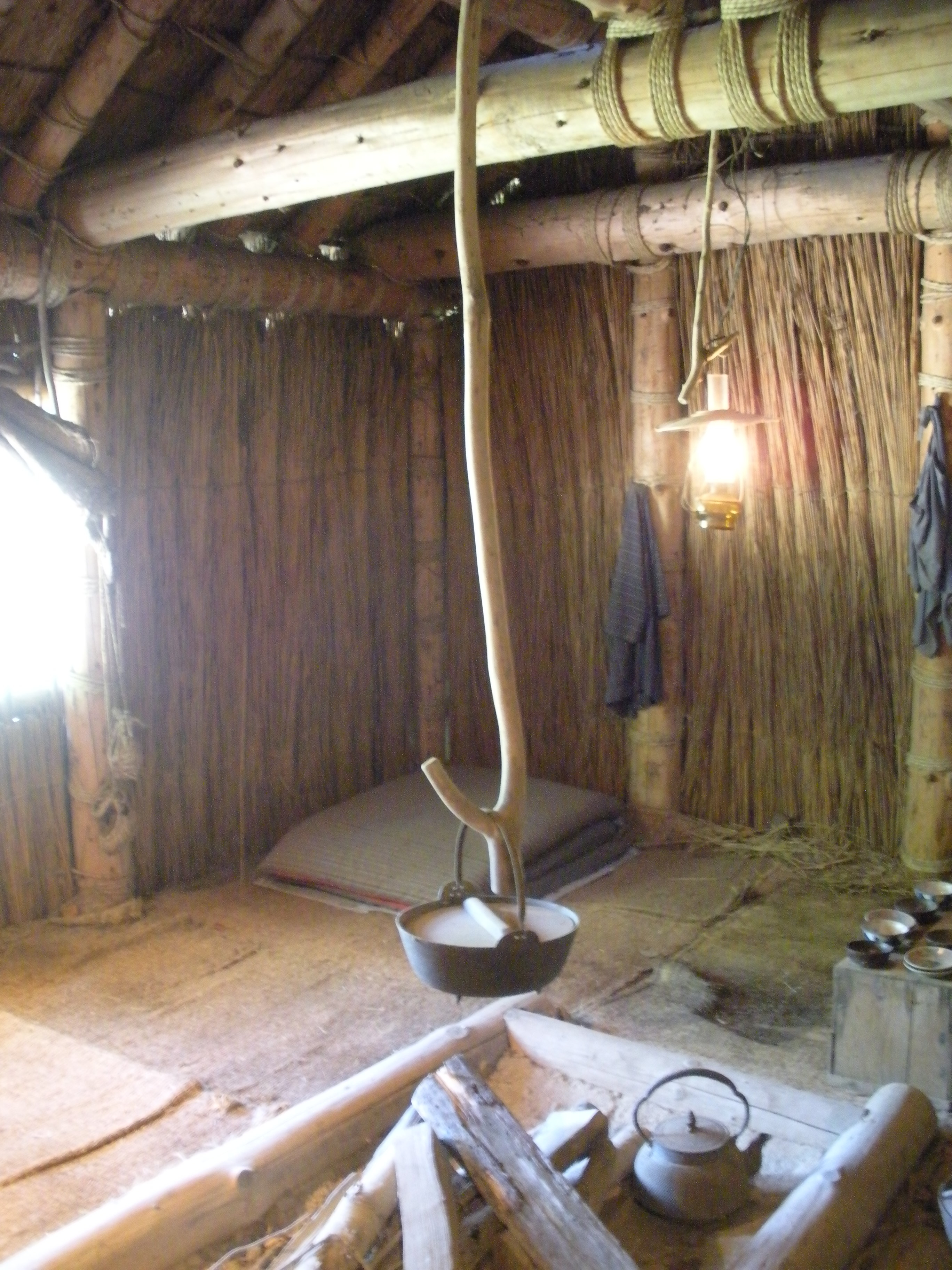 Hokkaido Pioneer cottage. Historical Village of Hokkaid. Atsubetsuch-konopporo, Atsubetsu-ku, Sapporo, Japan.